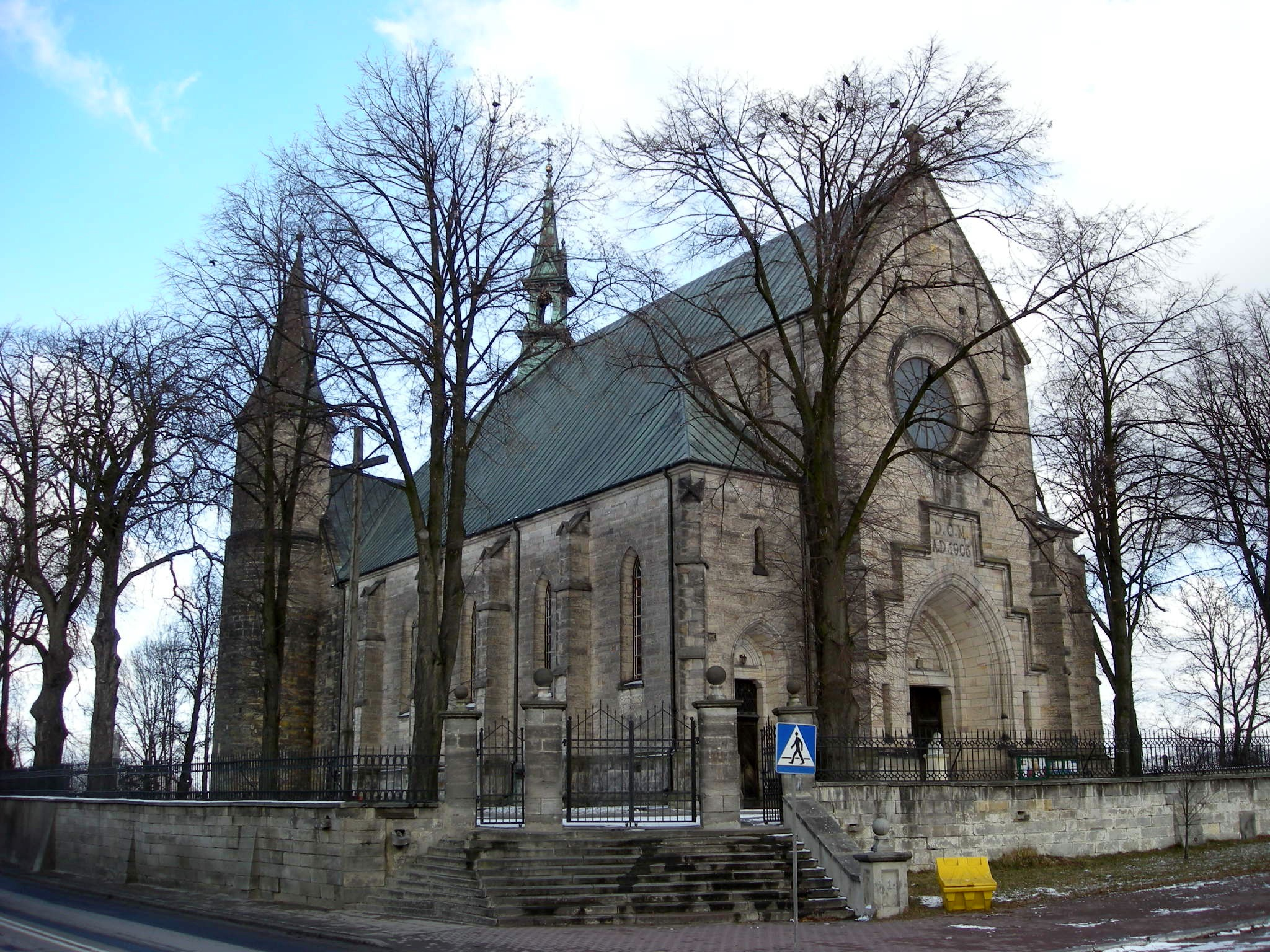 The church in Żarnów, Poland.